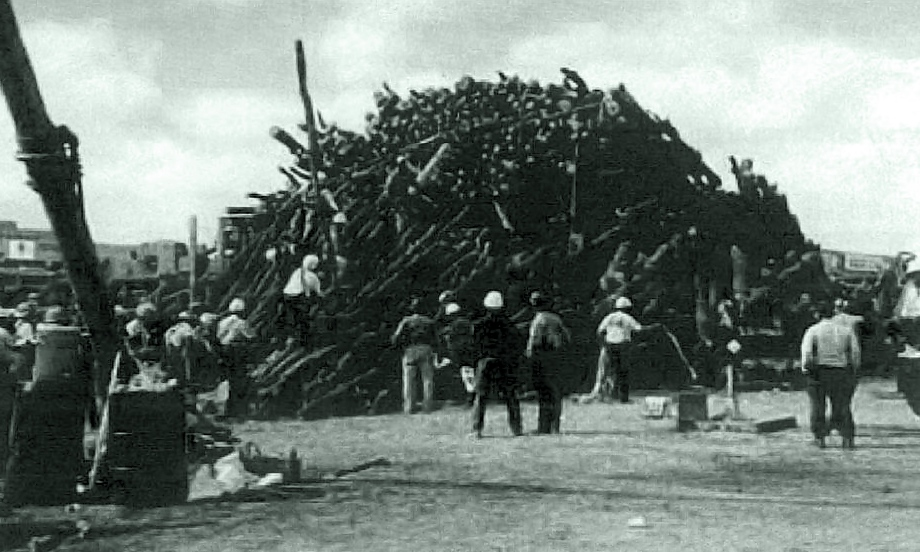 Texas A&M University. Remains of bonfire pile after collapse.